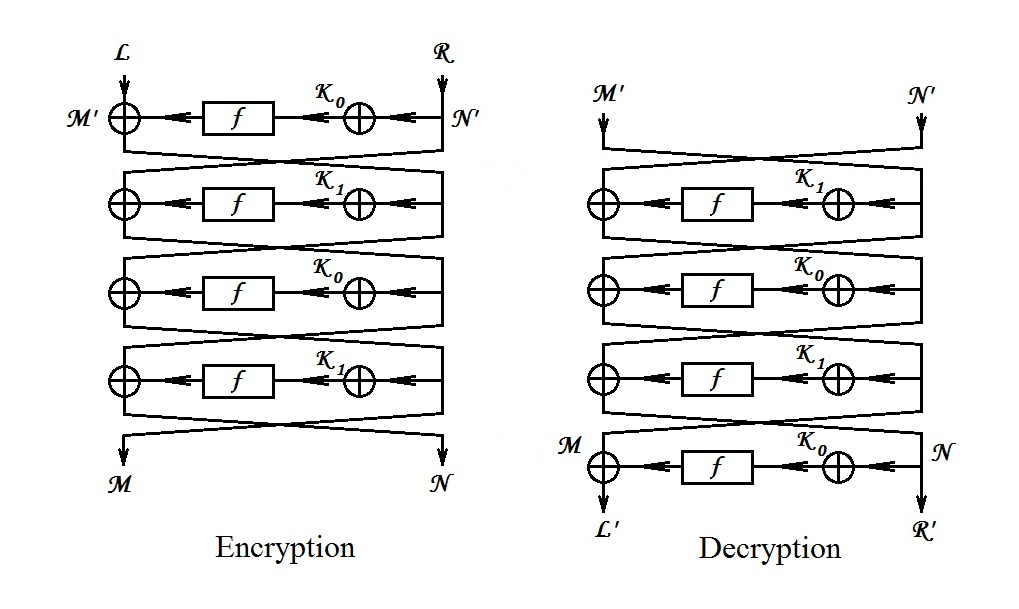 The diagram illustrates the sliding with a twist modification of the slide attack